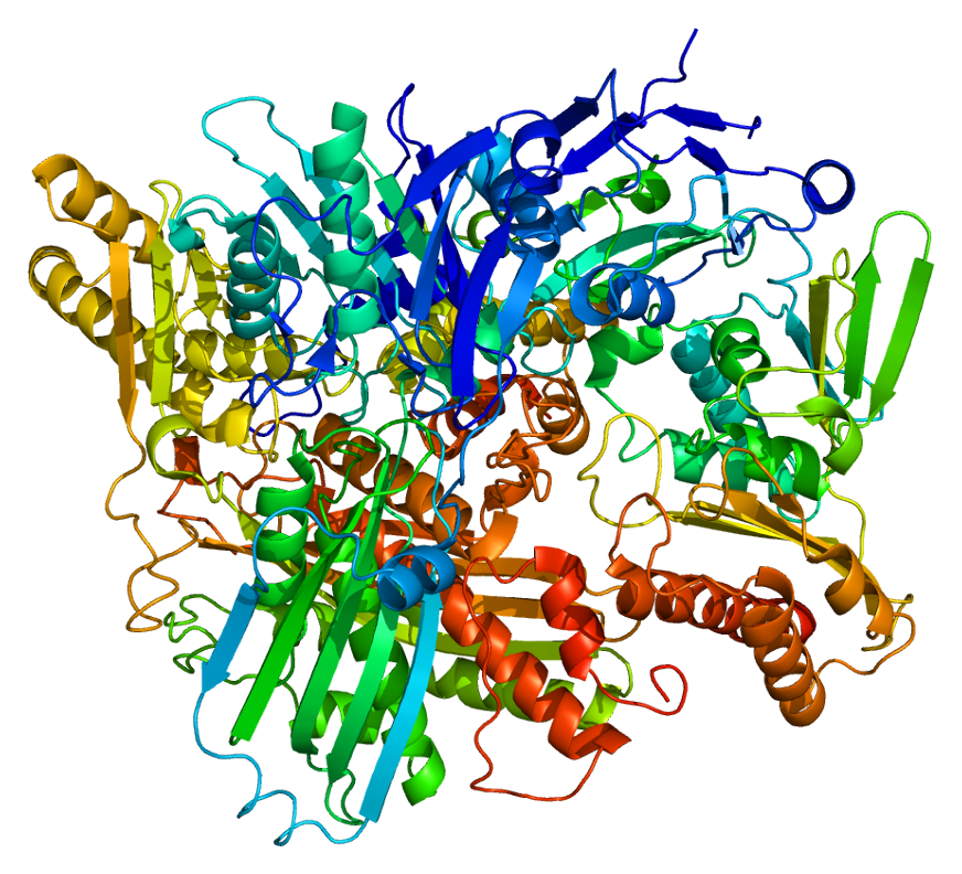 Structure of the XDH protein. Based on PyMOL rendering of PDB 1fiq.